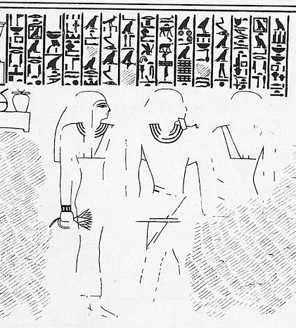 Drawing of a painting from the east wall of the tomb of the officer Netjernakht at Beni Hasan (BH23). Netjernakht is depicted between his mother Arythotep and his wife Herab. The painting was badly damaged by Copts several centuries after its making. Early 12th Dynasty, Middle Kingdom. [Newberry, Beni Hasan II, pl. XXIV]